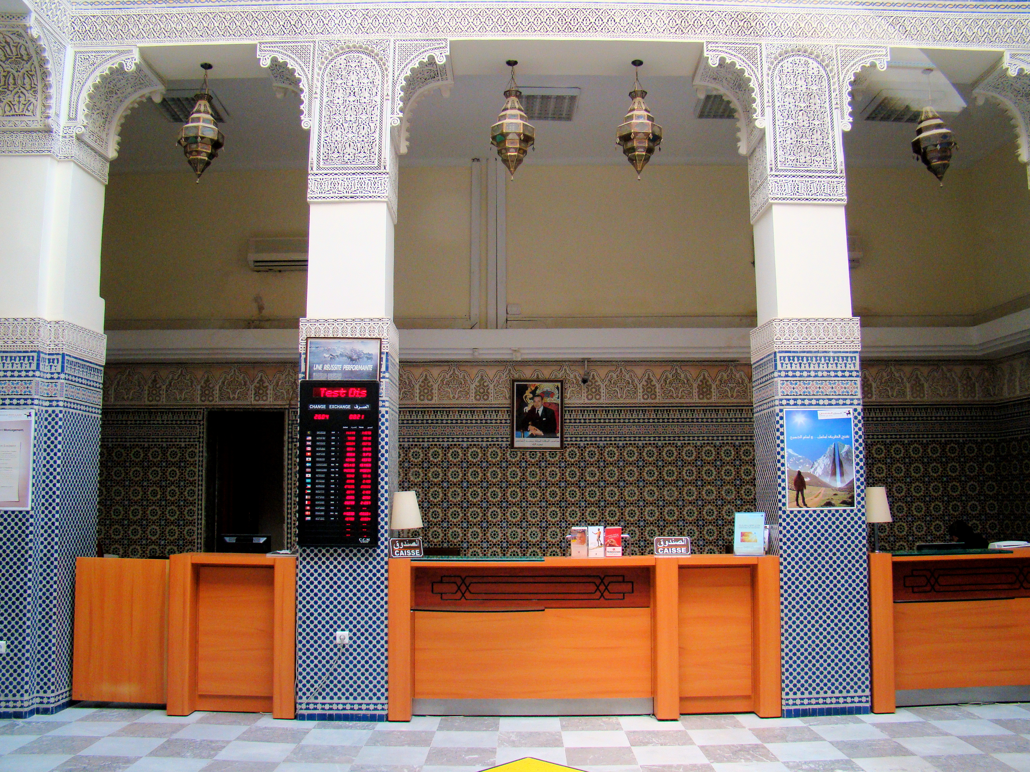 The public expedition at the offices of Banque Populaire du Maroc in the old town in Fes, Fes el Bali.